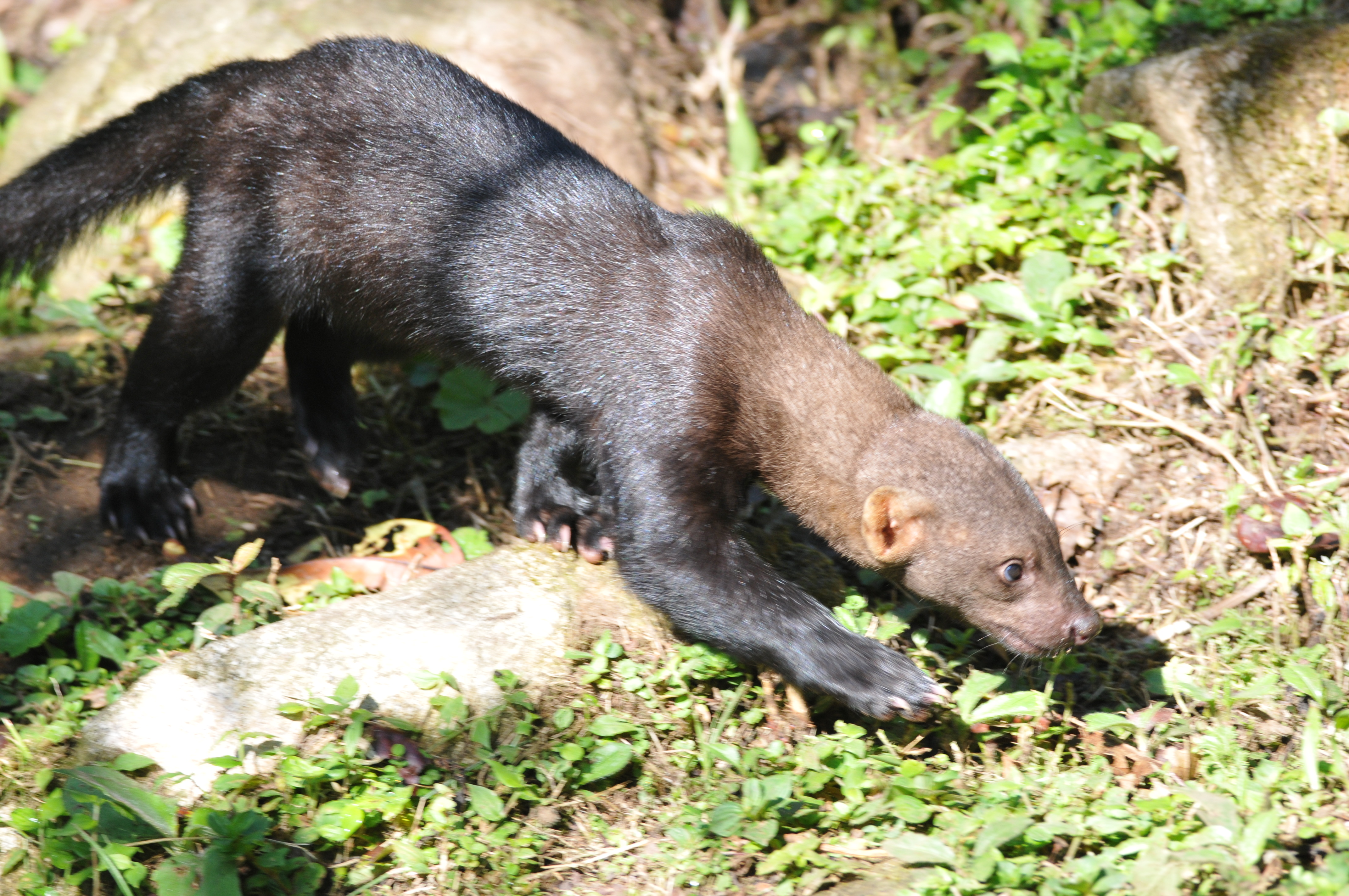 Wild tayra of Perou, This tayra (Eira barbara) was not in a zoo, but in the nature, cloud forest of Manu, Perou